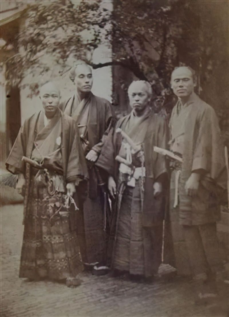 Members of the First Japanese Embassy to Europe (1862) in Utrecht, Netherlands. The second is Fukuzawa Yukichi from the left.